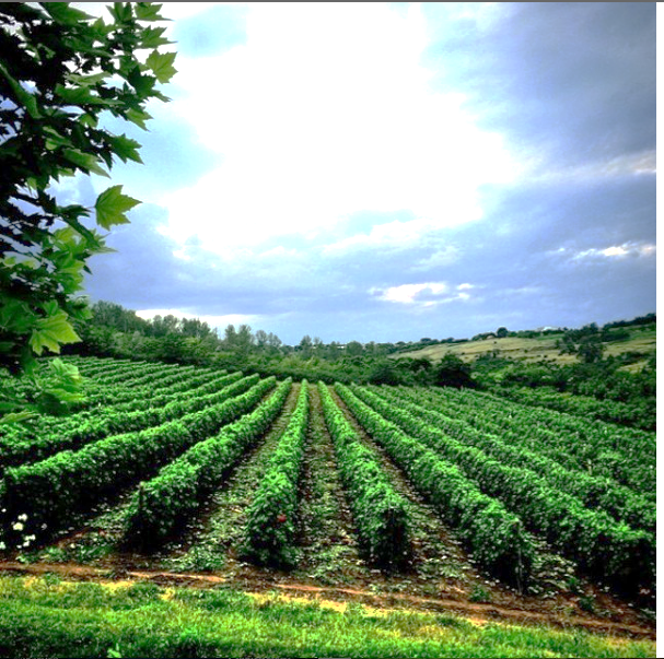 Purcari wineyards